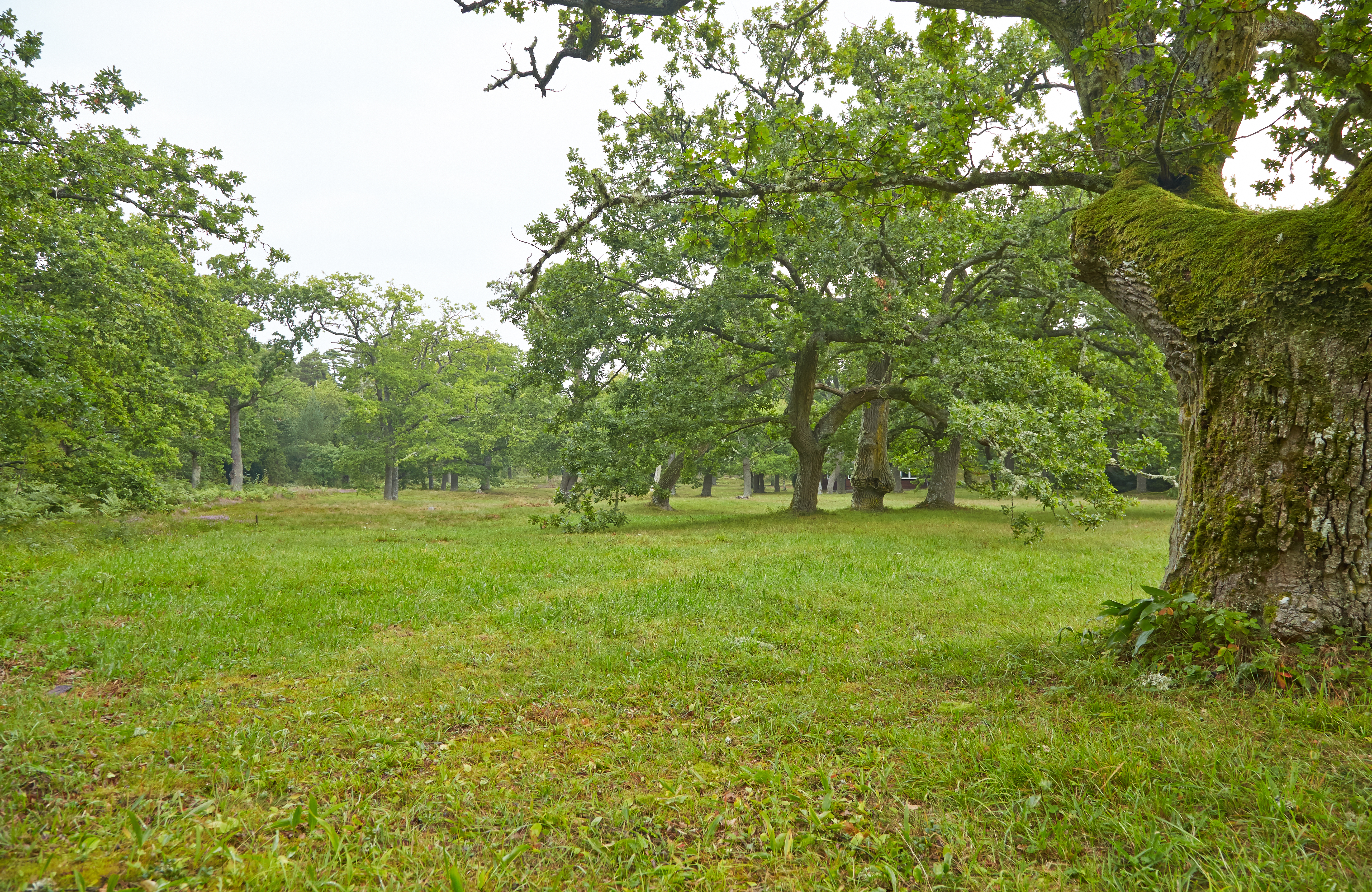 Kapellänget, Gotska Sandön